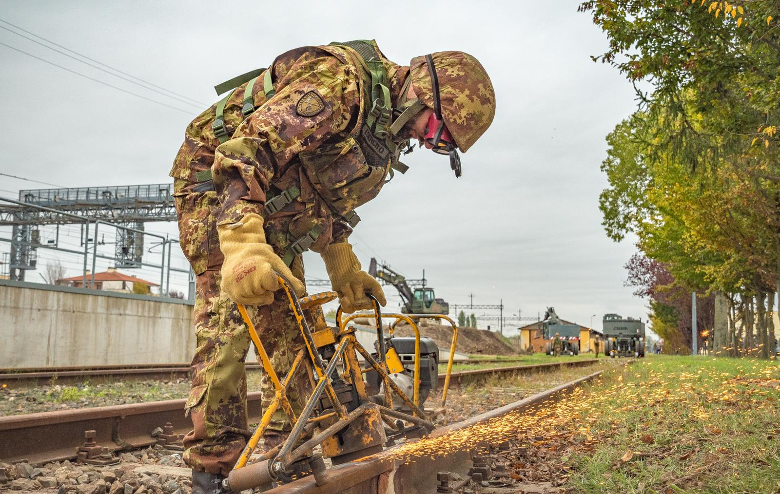 Italian Army - Railway Engineer Regiment soldier during an exercise 2019